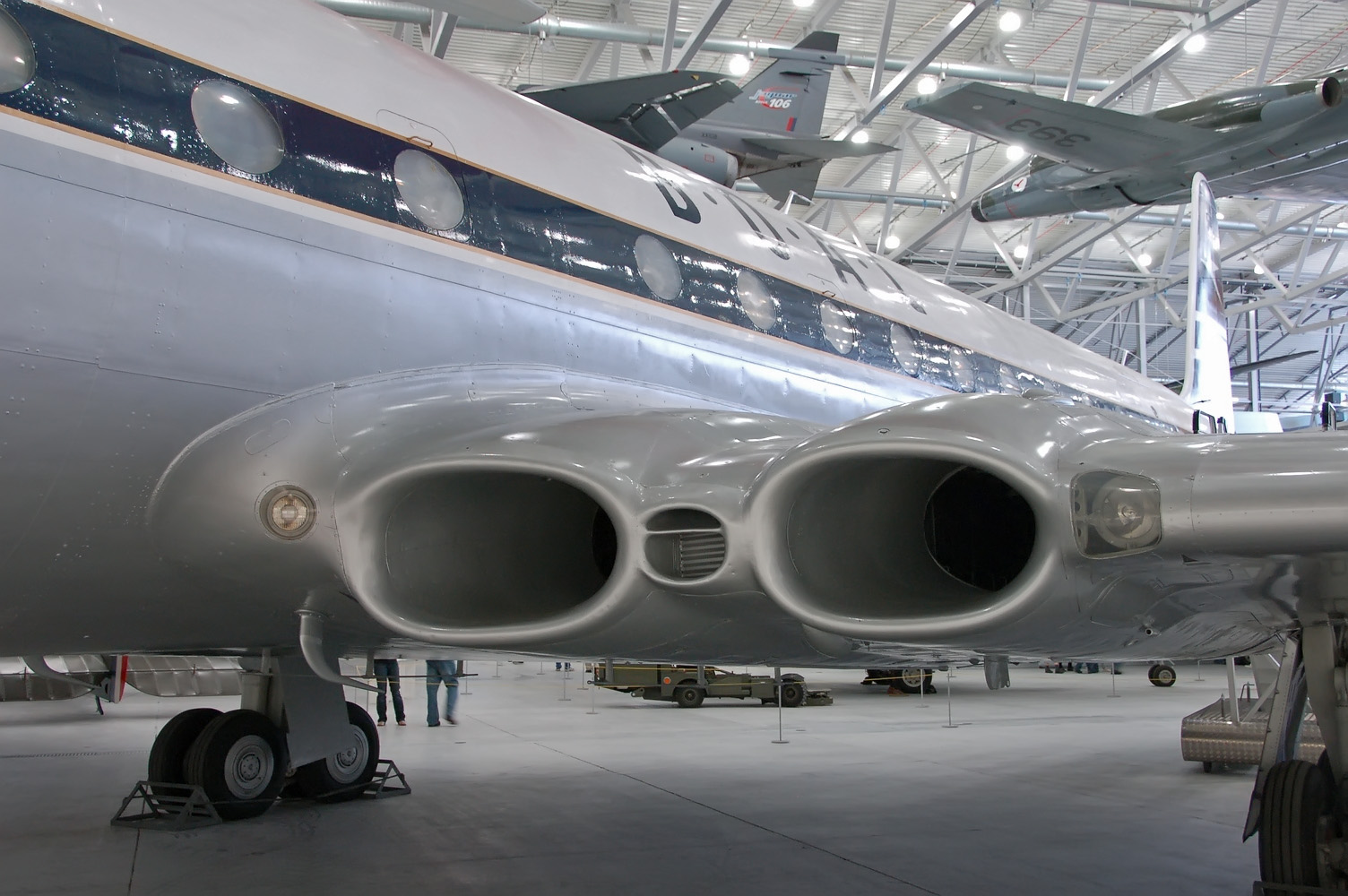 A BOAC de Havilland Comet 4 at the Imperial War Museum, Duxford, photographed by Robin Stevens on 26 May 2007.